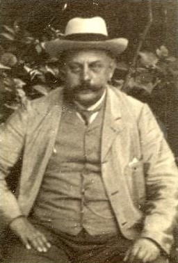 Estonian pharmacist and businessman Richard Oswald Scheibe (1860-1927) in 1911.